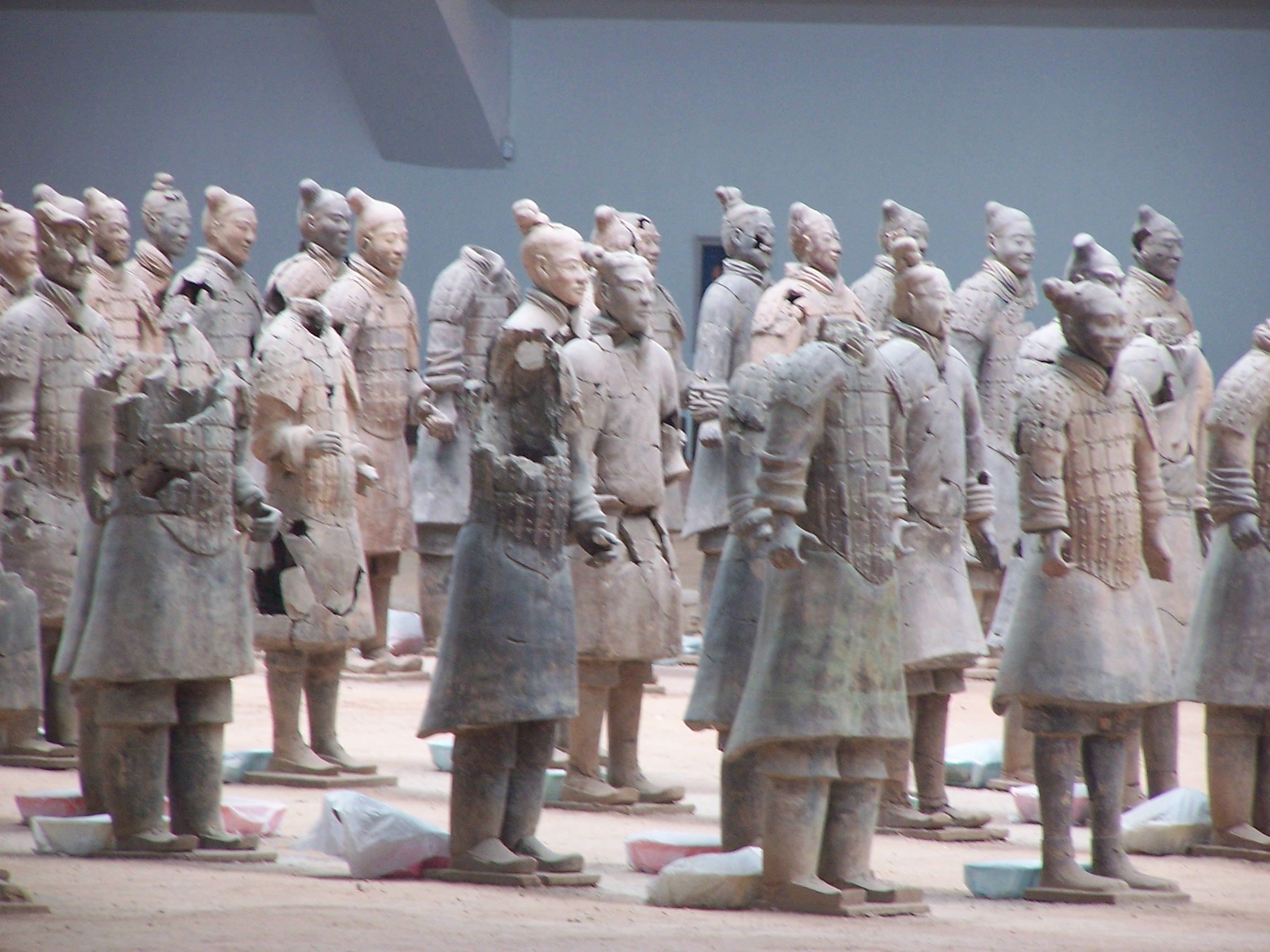 Broken Terracotta Warriors